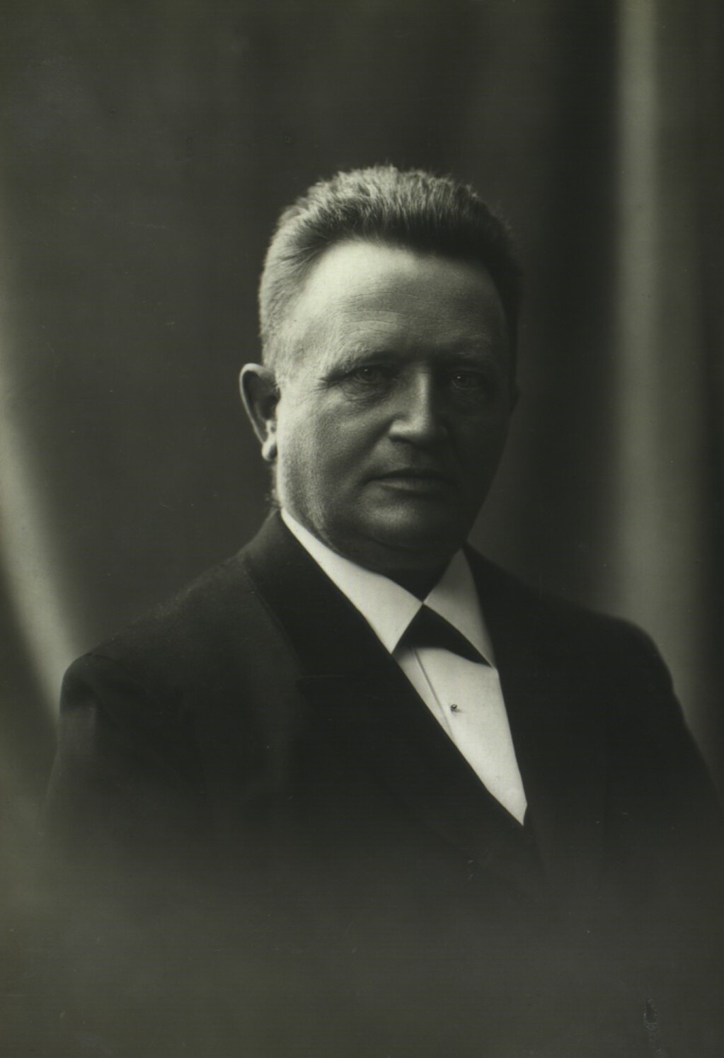 Danish politician, minister, MP Poul Christensen (1854-1935), representing the Social Liberal Party (Det Radikale Venstre)